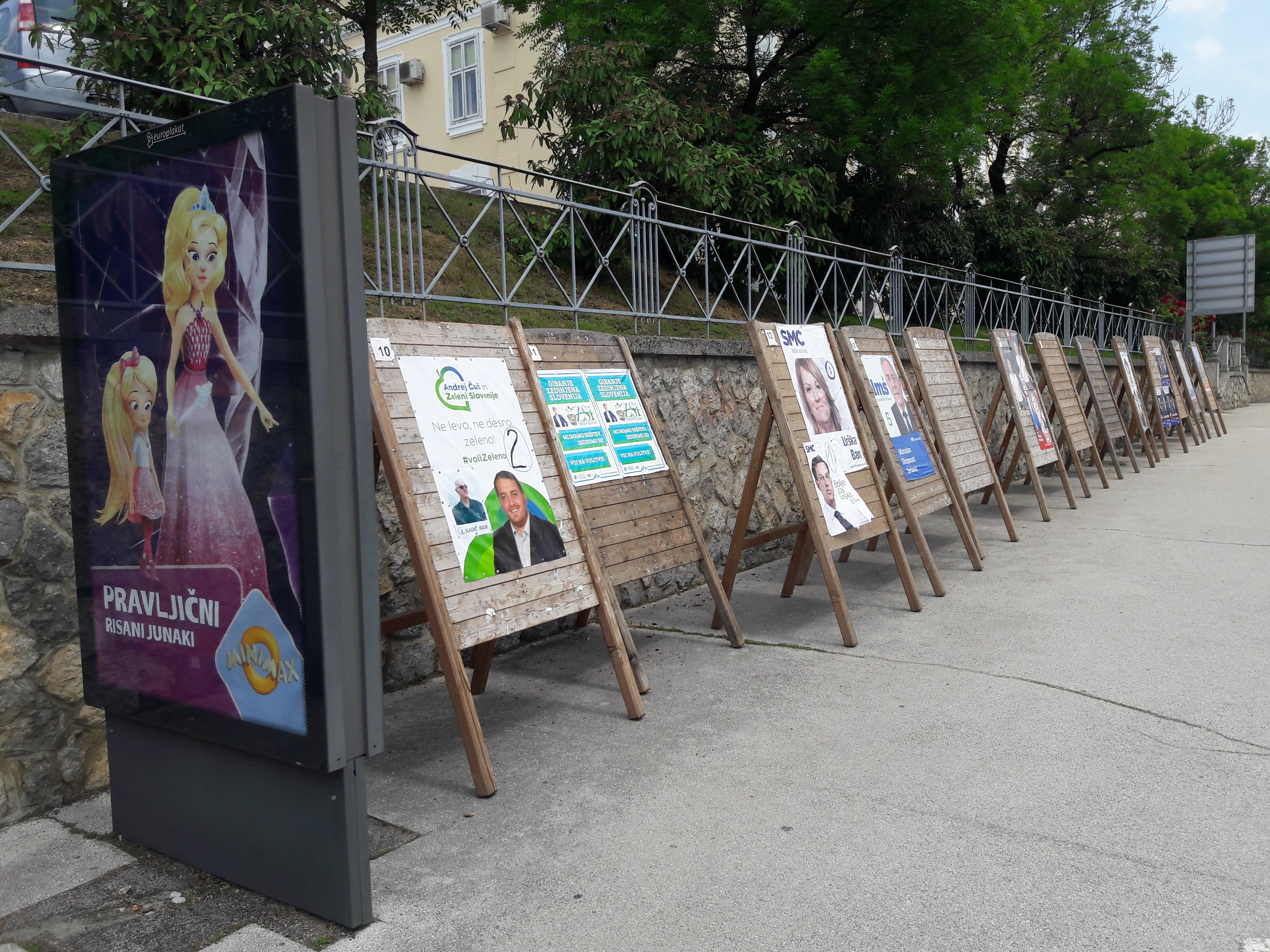 Volitve 2018_plakat1